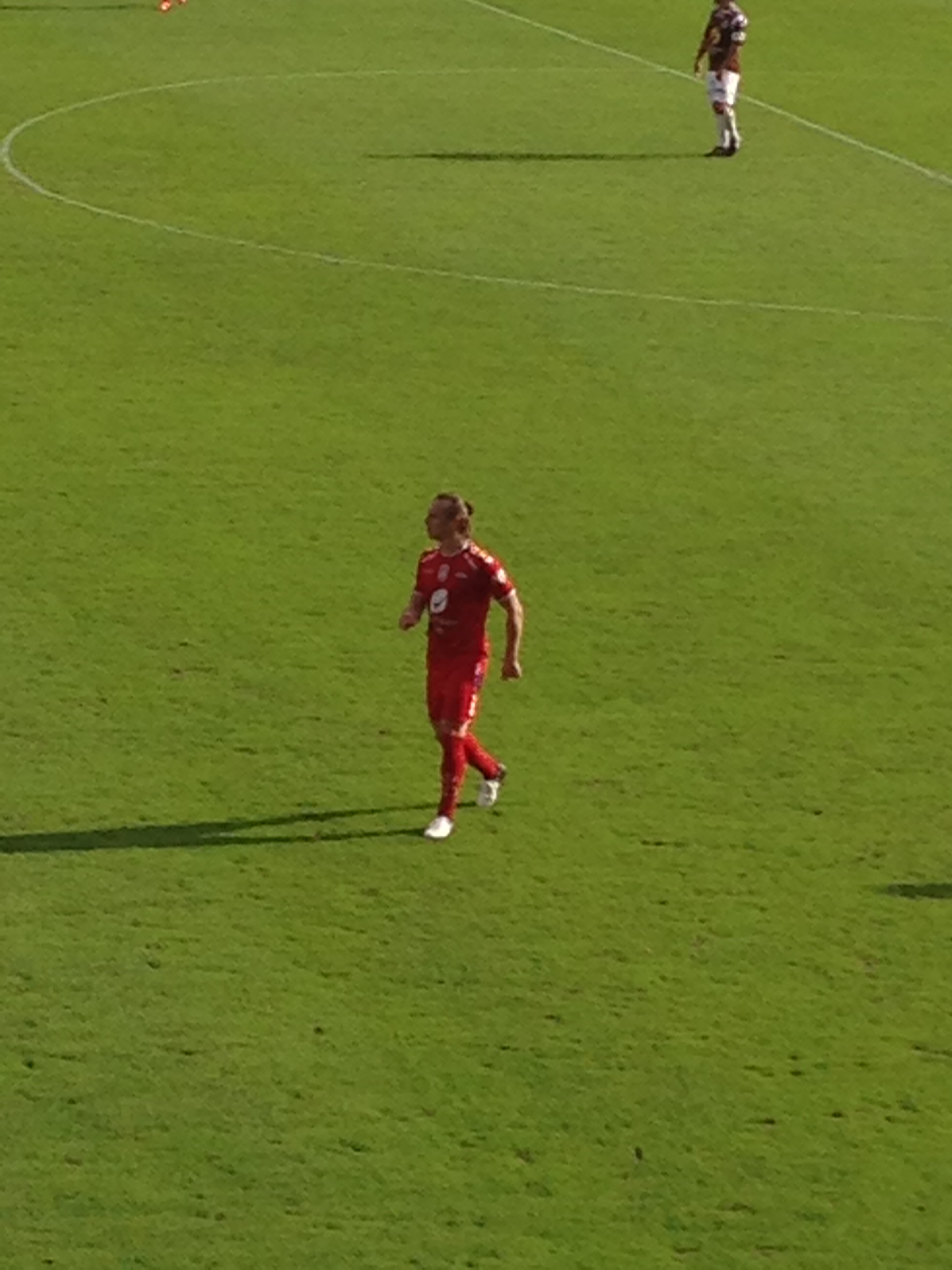 Martin Pusic